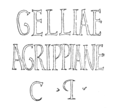 section of CIL VI, 1424 = EDR 110516 from Exempla scripturae epigraphicae latinae , showing reversed P (ꟼ).